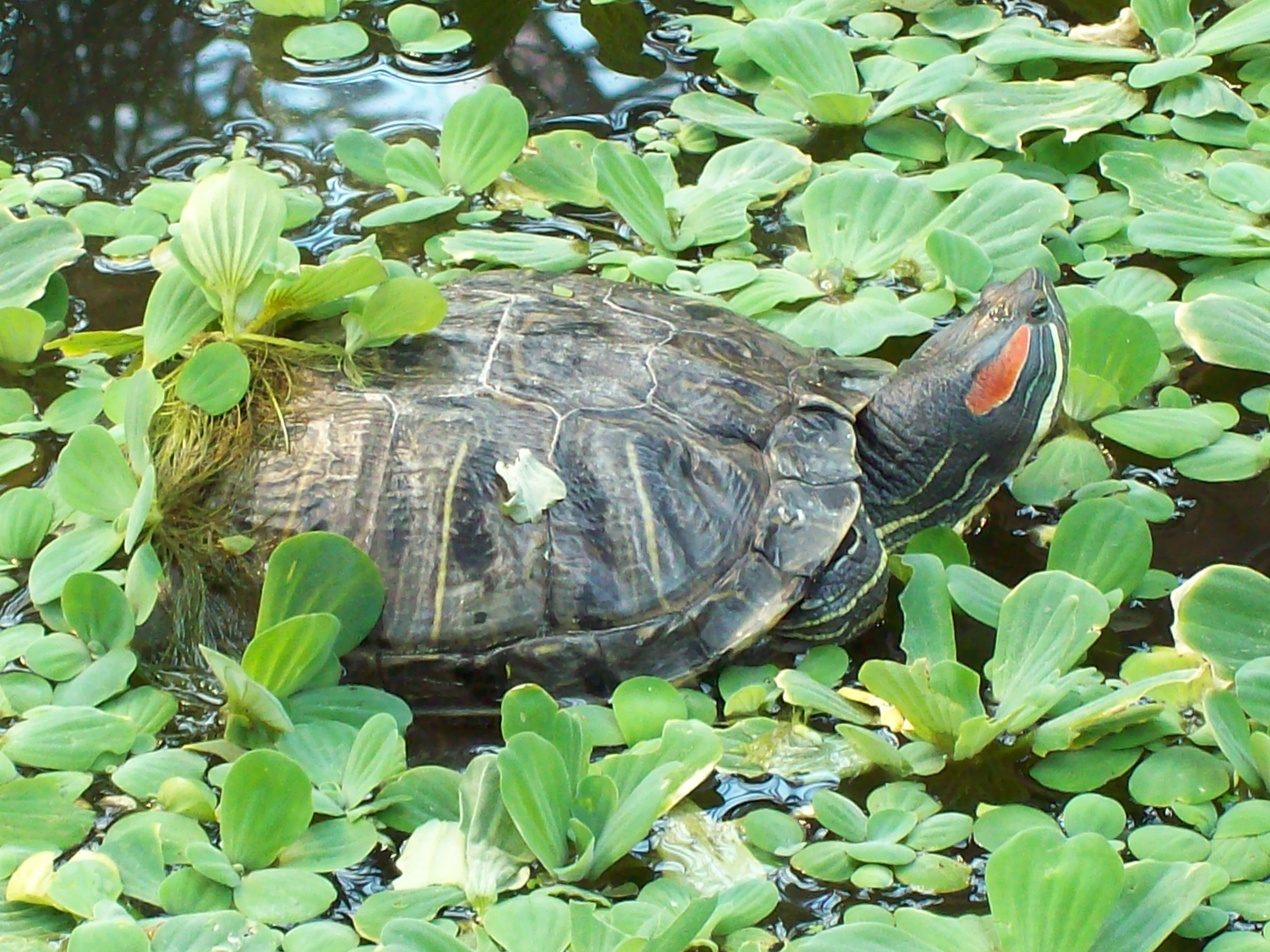 A red-eared slider (Trachemys scripta elegans) at the garden of the Atocha railway station in Madrid (Spain).